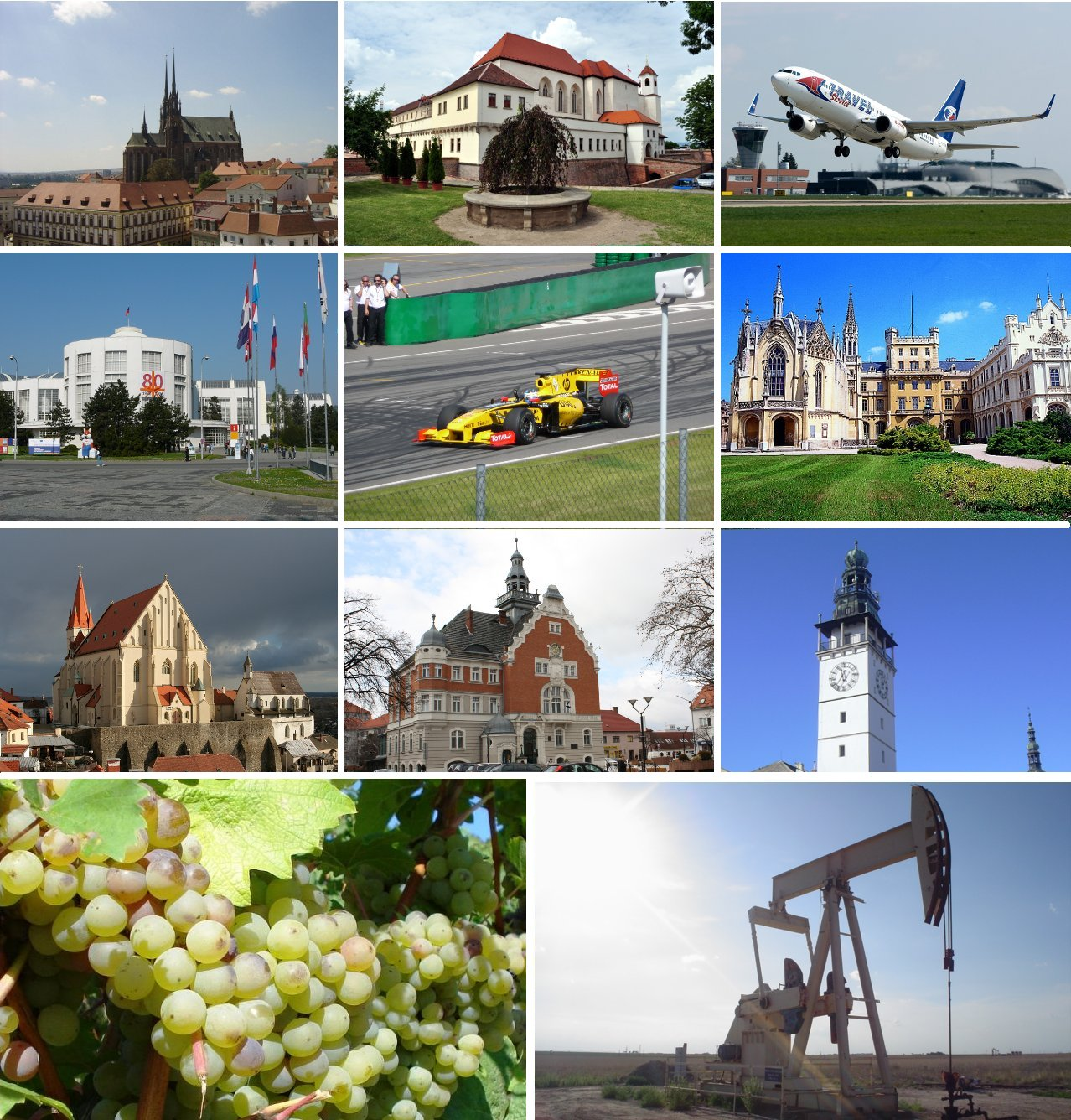 South Moravia administrative region in Moravian and partially in Bohemian country, state: Czech republic, European Union